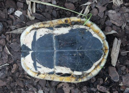 Cuora mccordi Male by Torsten Blanck